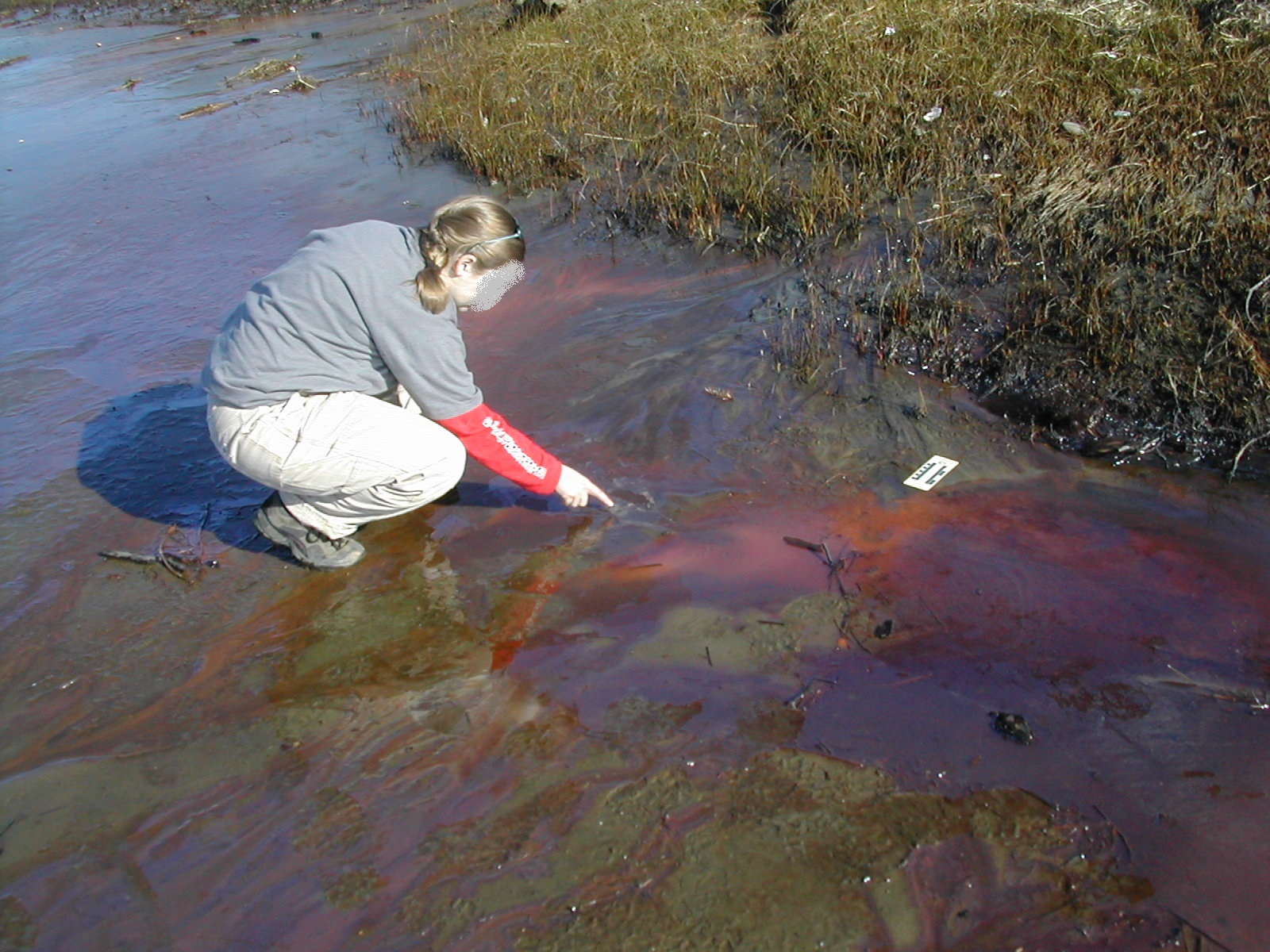 Schwimmeisen on a body of stagnant water in the Driftwood Beach State Recreation Site in the state of Oregon, United States. In mineralogy and hydrology, the term Schwimmeisen describes thin films of oxidizing floating iron on the surface of shallow and, in most cases, only temporary bodies of stagnant water. (The technical terminology in German is also used in English-speaking publications.)